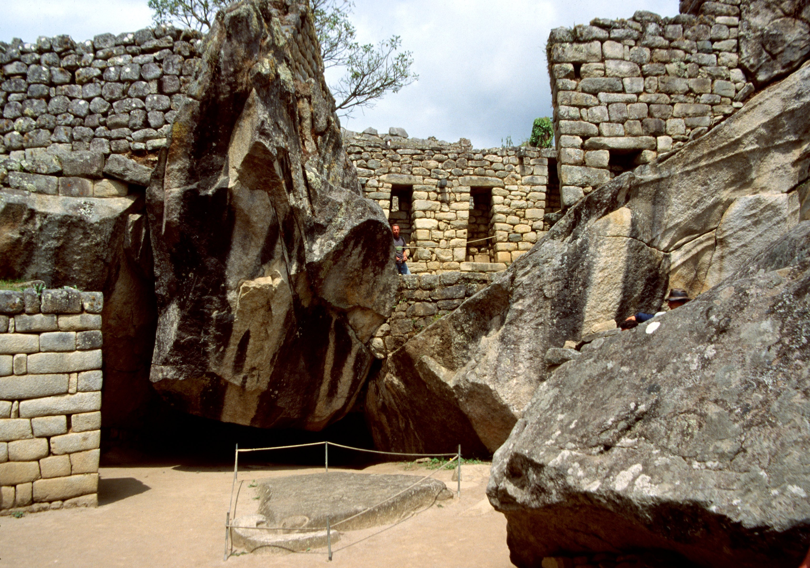 Machu Picchu, Perú. Temple of Condor. The rocks in the rear are the wings while in the ground the rock is the head, neck and shoulders of a three dimensional condor.